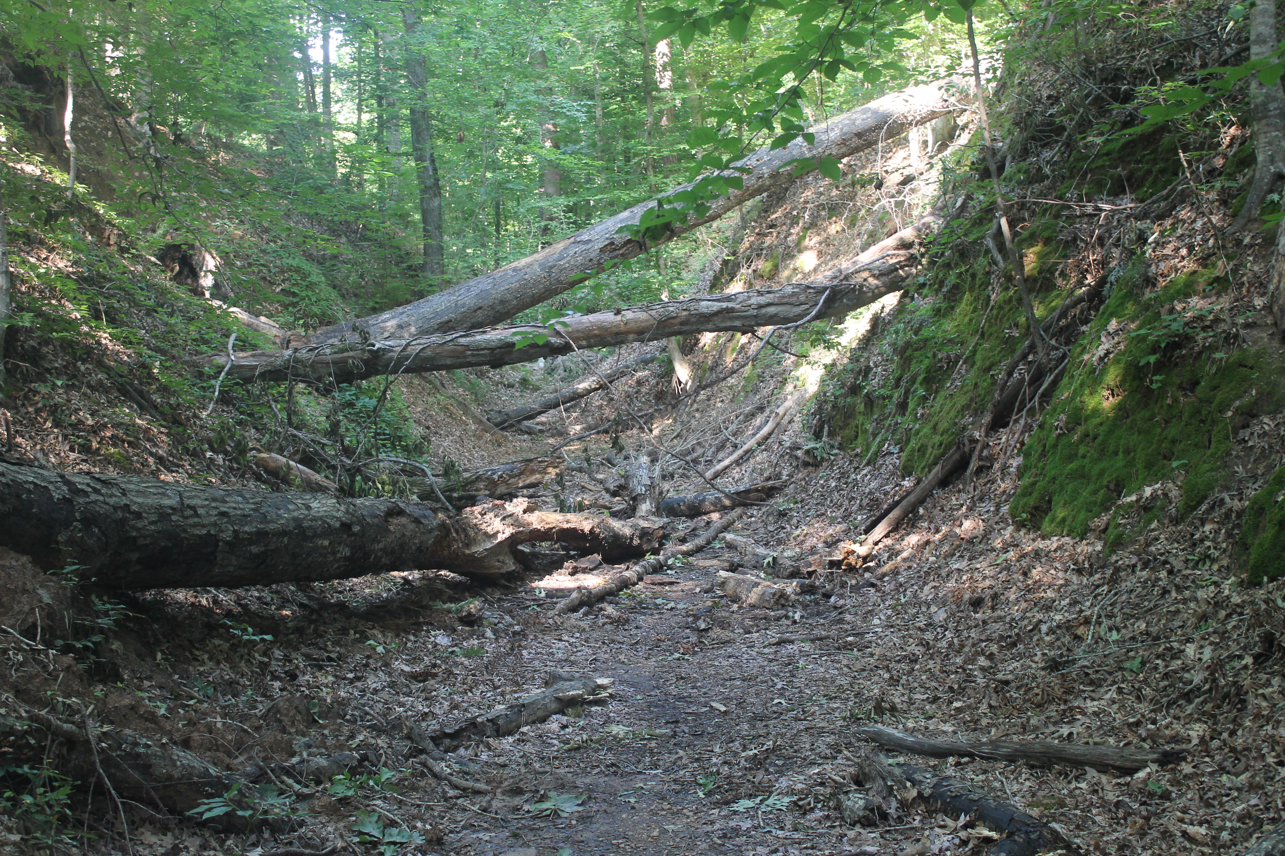 Sunken Trace of Natchez Trace Parkway